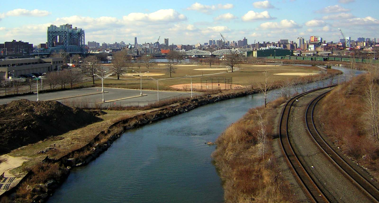 Looking west from Bronx leg of Robert F. Kennedy Bridge at Bronx Kill. Willis Avenue Bridge in background to right, and Manhattan leg of TBB left. Oak Point Link along the north bank, at right.